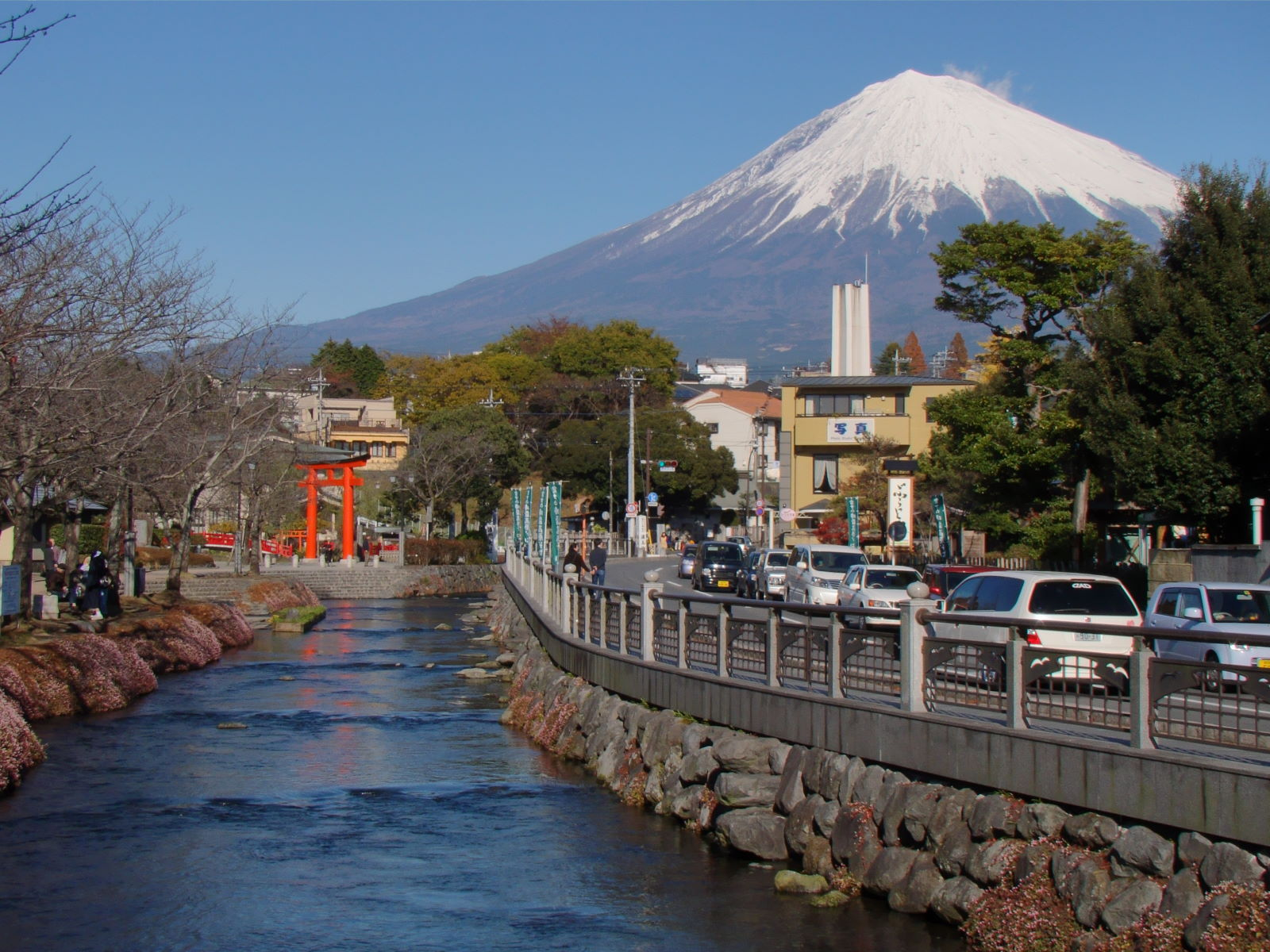 Kandagawa, a tributary of the Fuji river Fujinomiya Japan